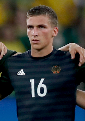 Rio de Janeiro - Brasil vence Alemanha e conquista primeiro ouro olímpico do futebol (Fernando Frazão/Agência Brasil)